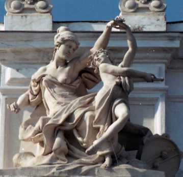 Terpsichore-Odessa theatre